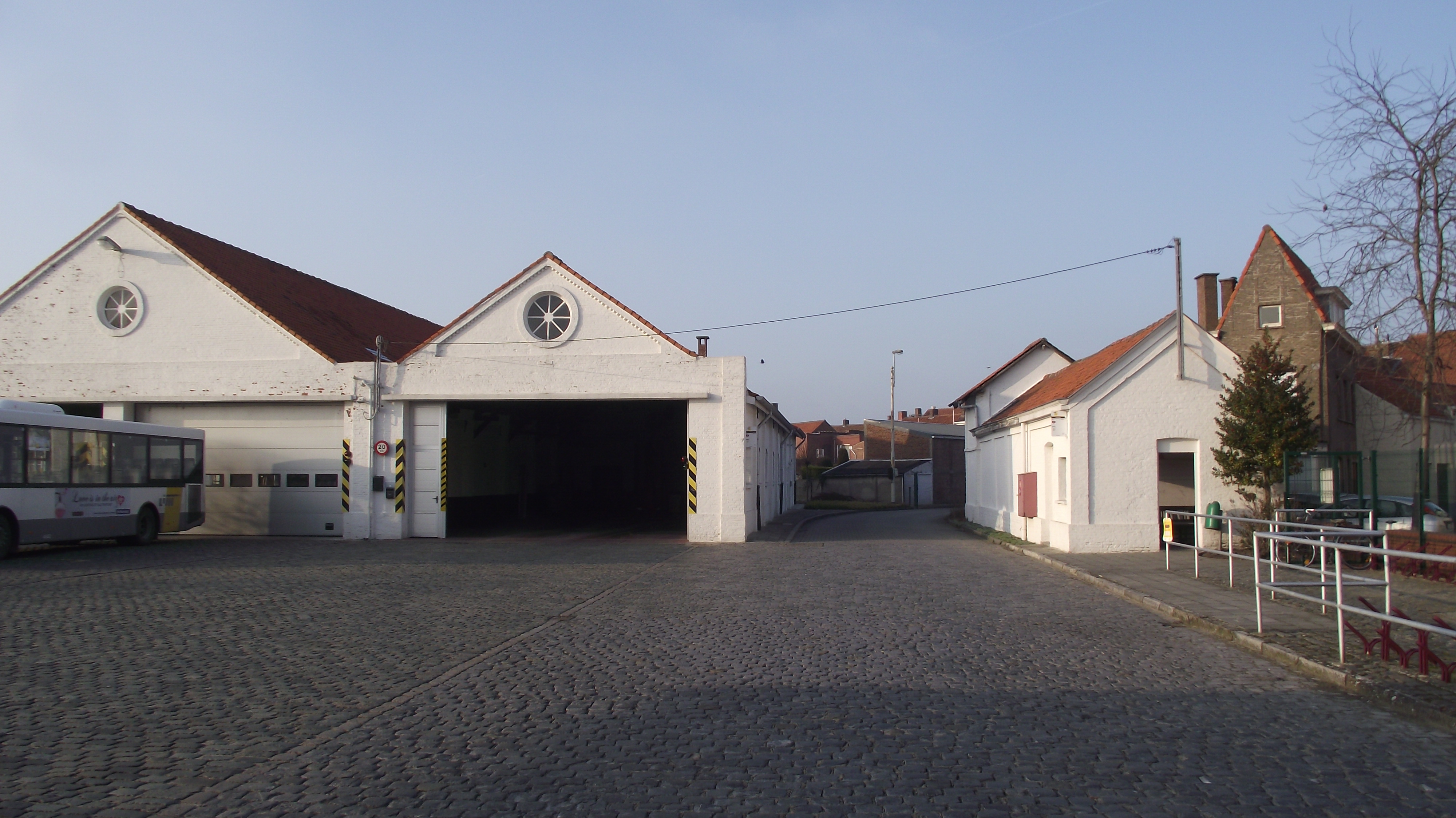 Ex-vicinal railway depot in Geluwe. It was used by electric trams, now by "De Lijn" as busdepot. To the left are busgarages and on the right is a sidebuilding. On both side of the passage these is a busstopsign. The buses to and from Ypres (lijn 84) stop here on the private property of the company.